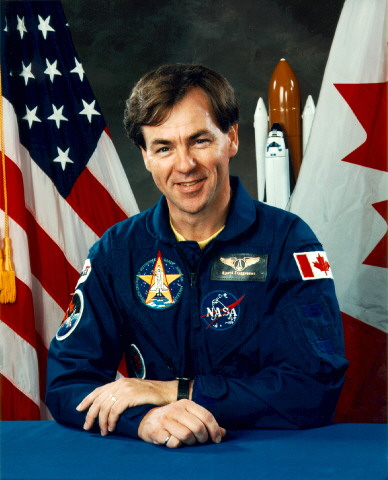 Canadian astronaut Bjarni Tryggvason.